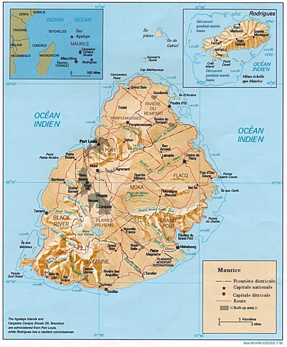 Relief map of Mauritius, with inset of Rodrigues Island. US Central Intelligence Agency, 1990.